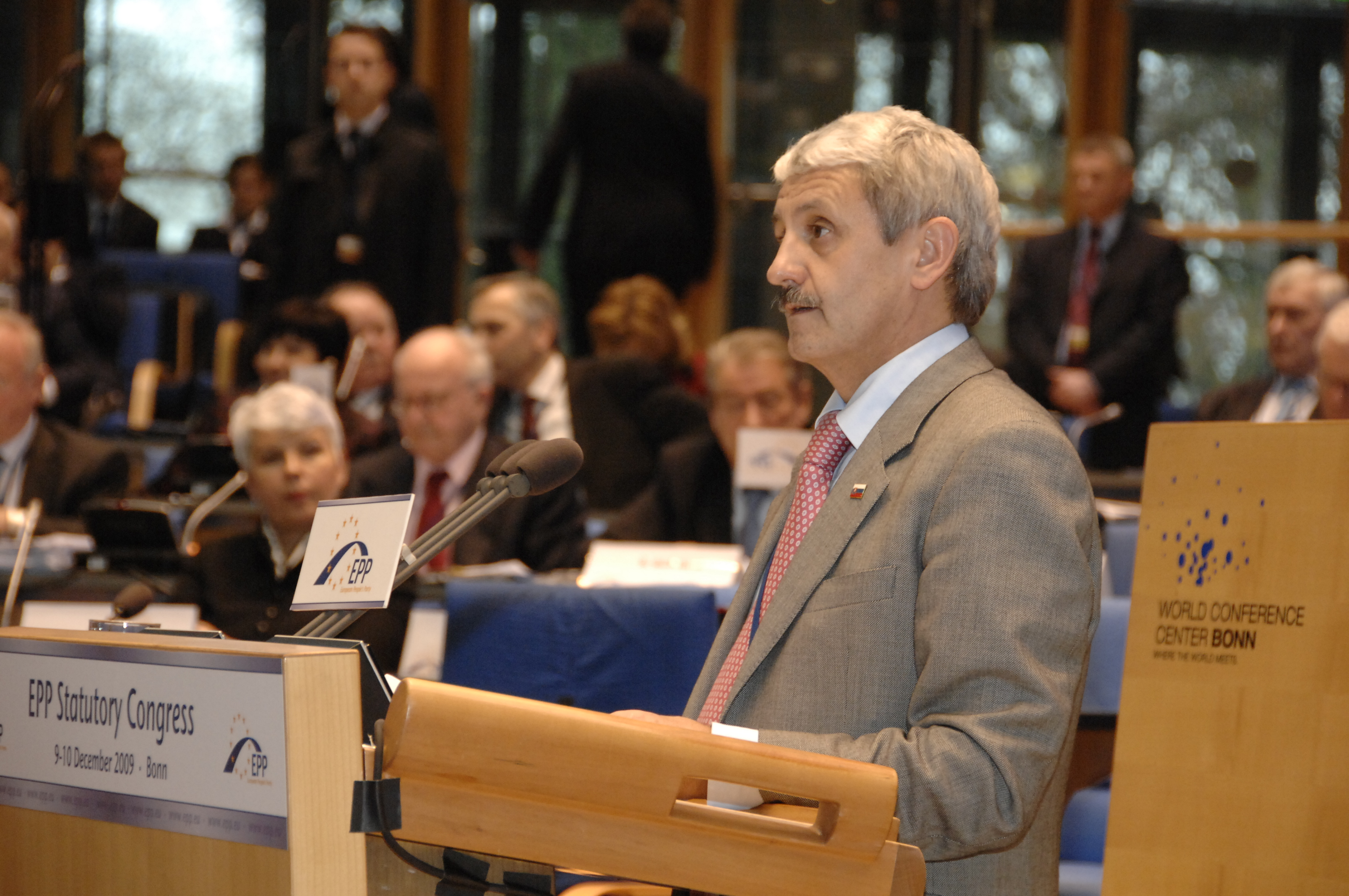 EPP Congress Bonn